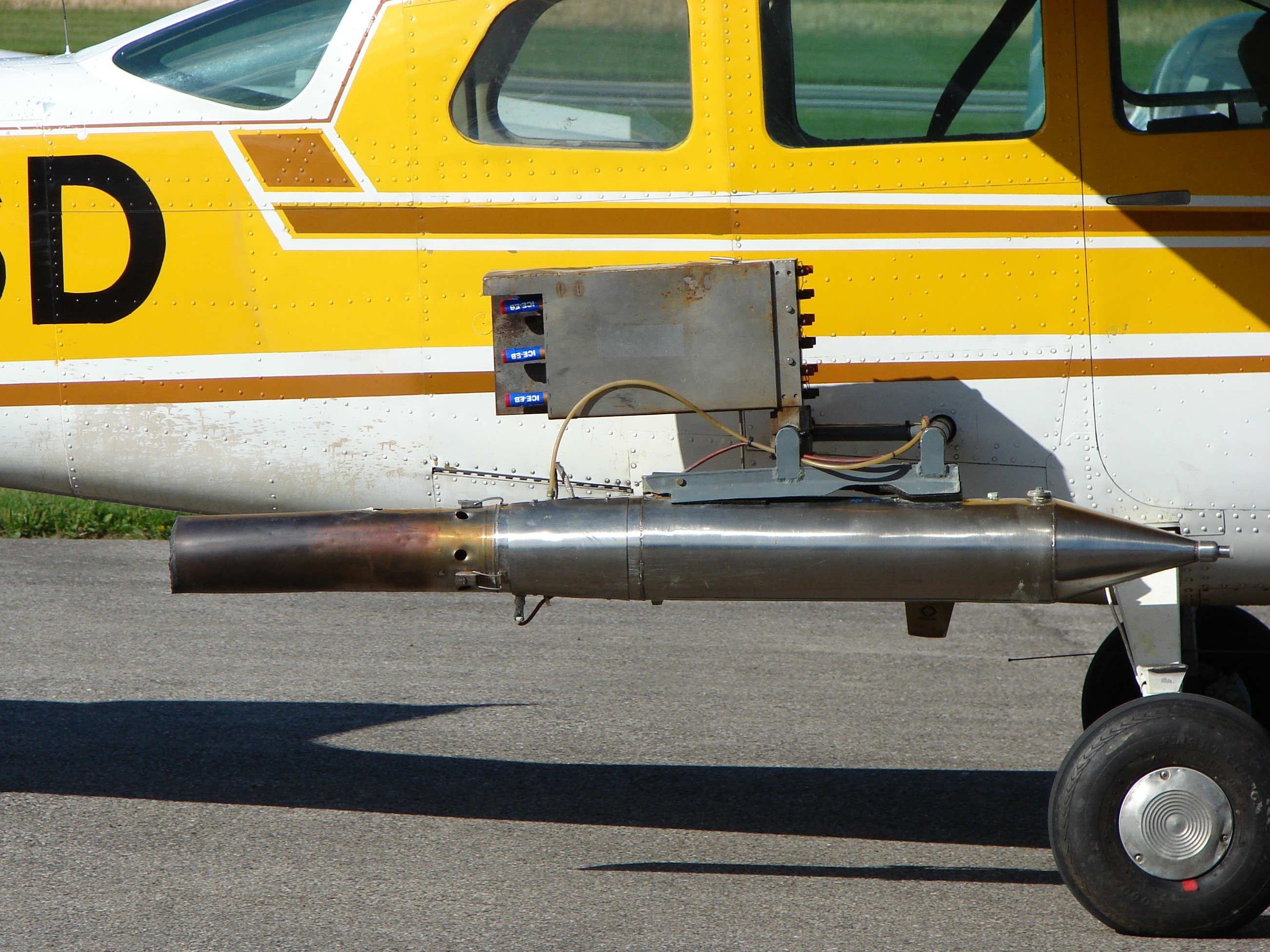 Cessna 206, rebuilt for cloud seeding, with detail view of silver iodide generator